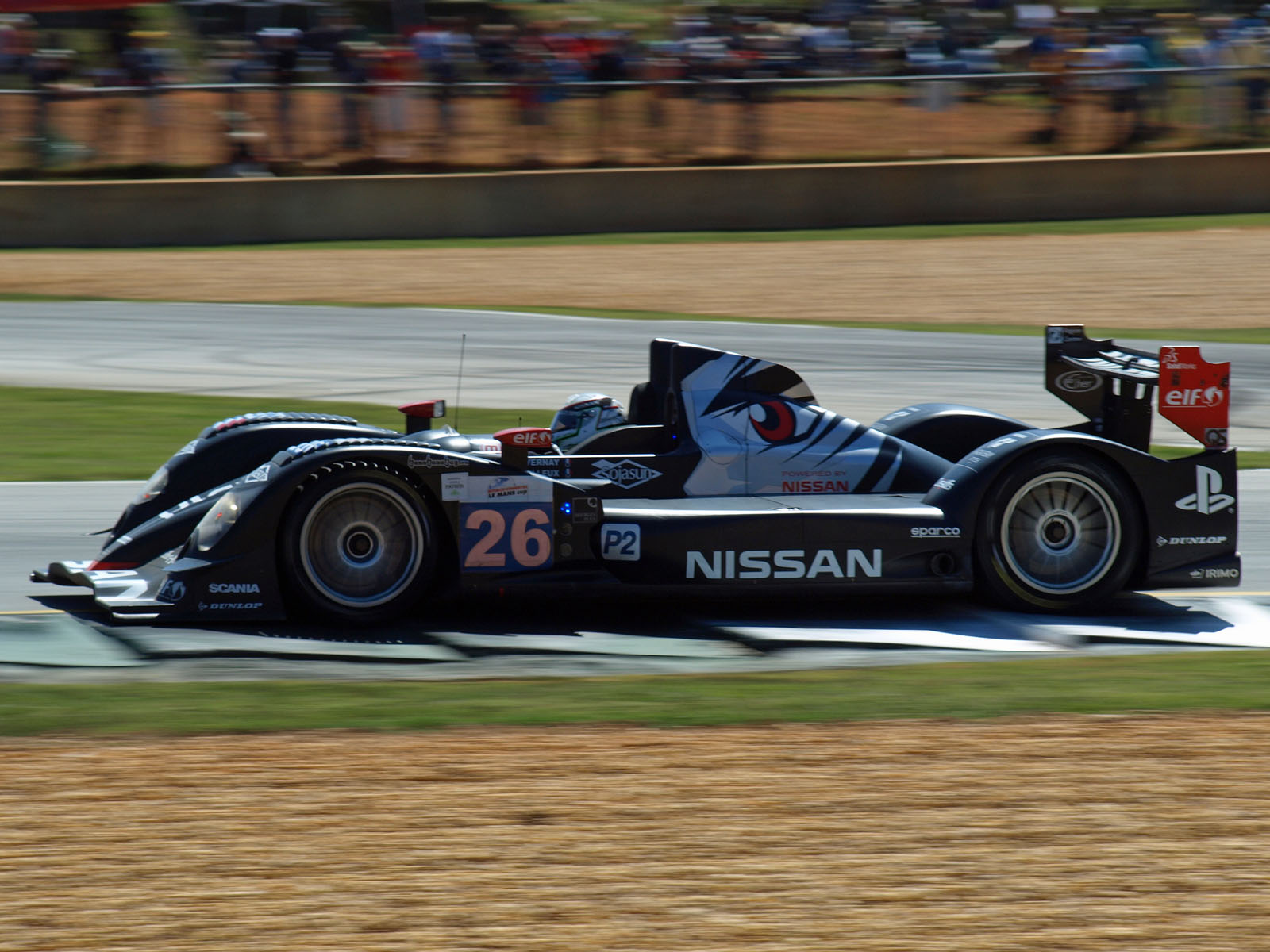 Franck Mailleux driving the Signatech Oreca 03-Nissan in the 2011 Petit Le Mans at Road Atlanta.